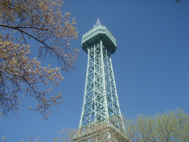 I took this picture in April 2007.